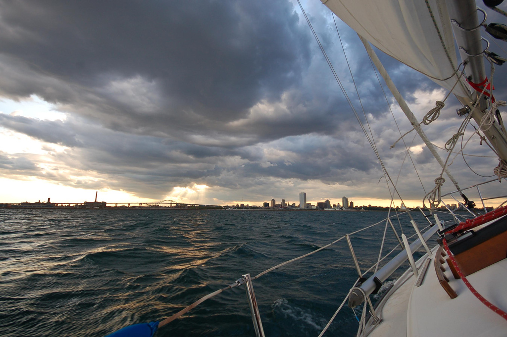 Rough waters, Lake Michigan with Milwaukee at horizon. Photo taken off of a boat on July 12, 2007, uploaded to Flickr on October 21, 2007.